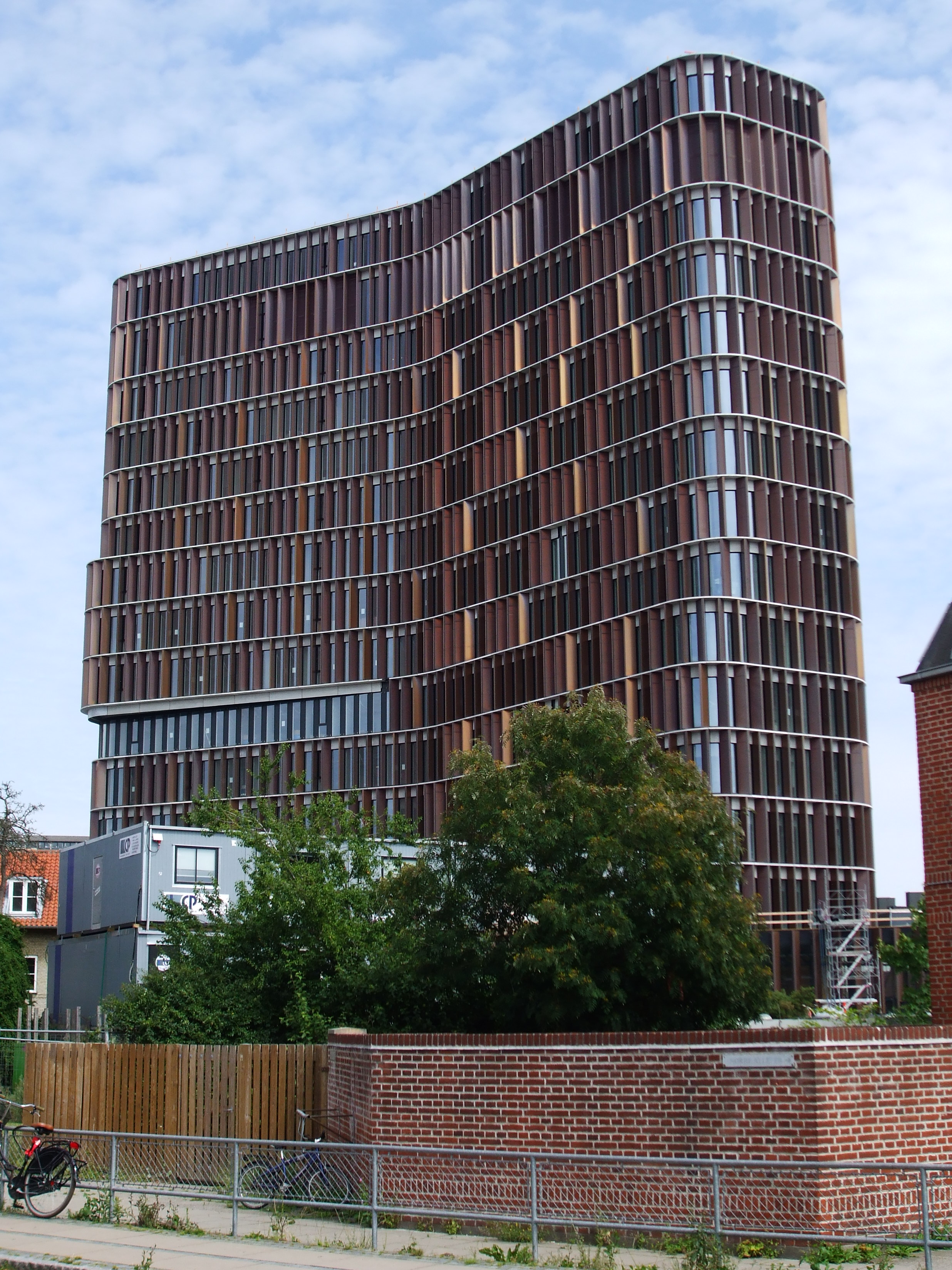 Mærsk Bygningen set fra vest